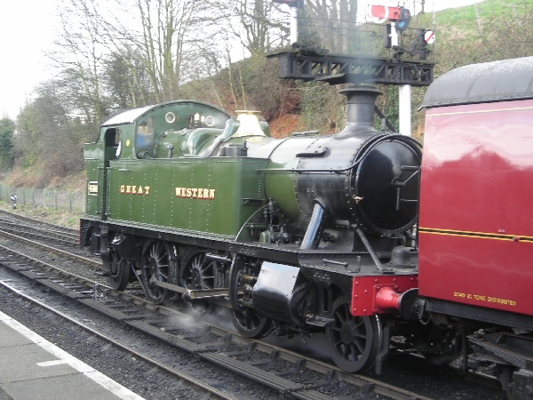 GWR 2-6-2T No.4566